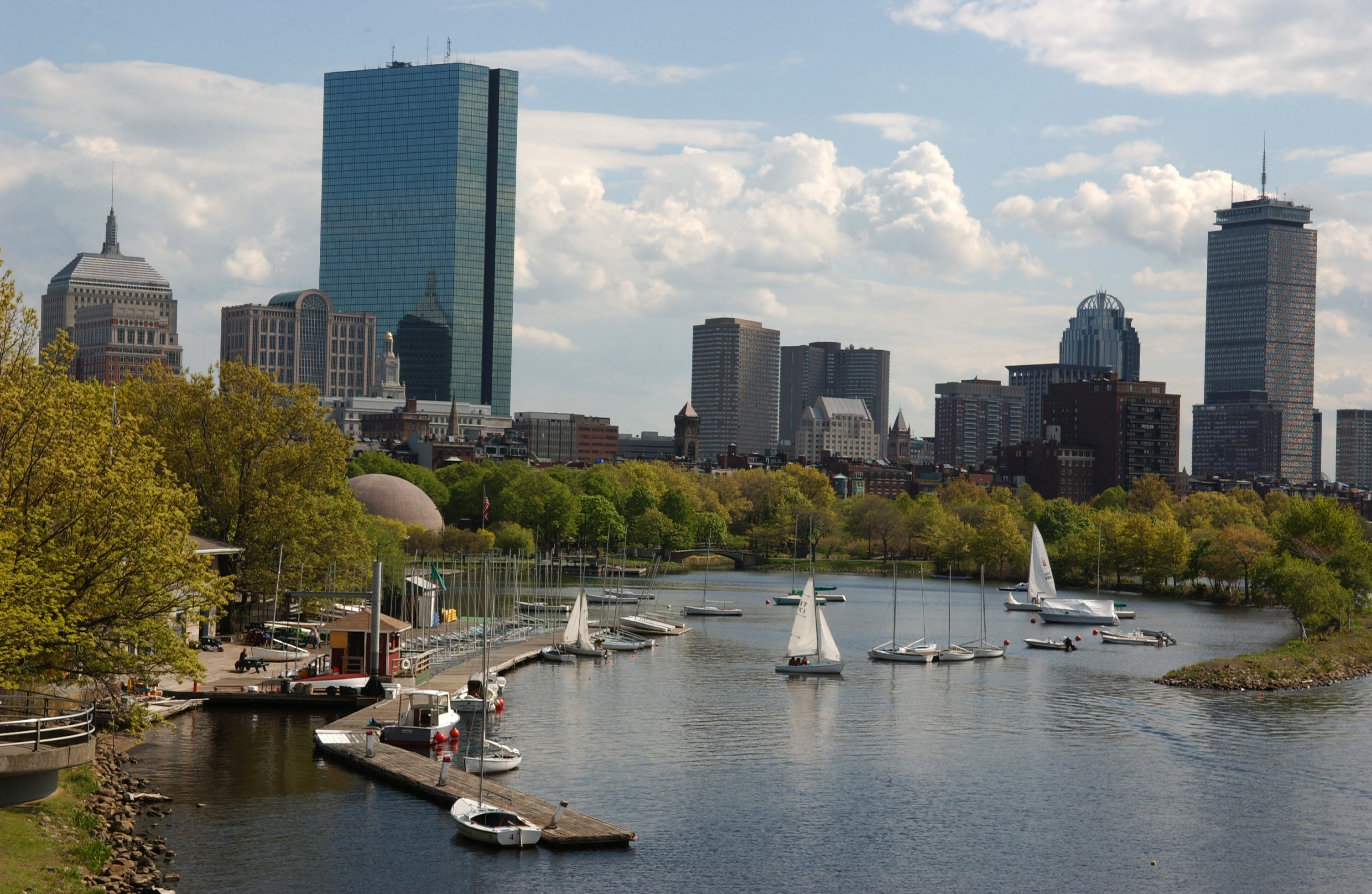 Boston, Back Bay